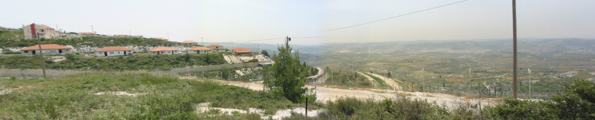 View of Homesh homes and valley